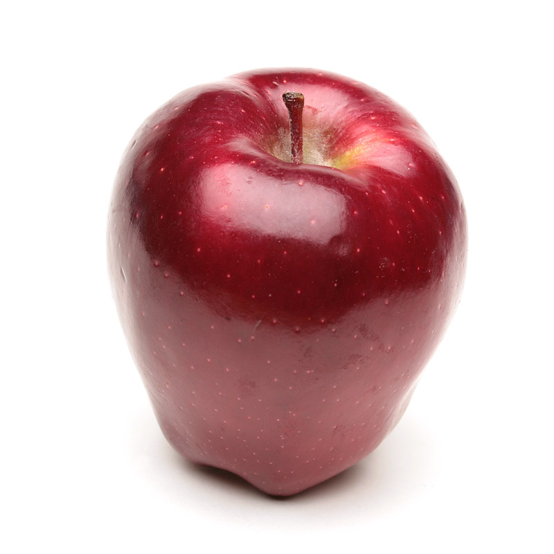 Red Delicious apple Photo by Brian Arthur